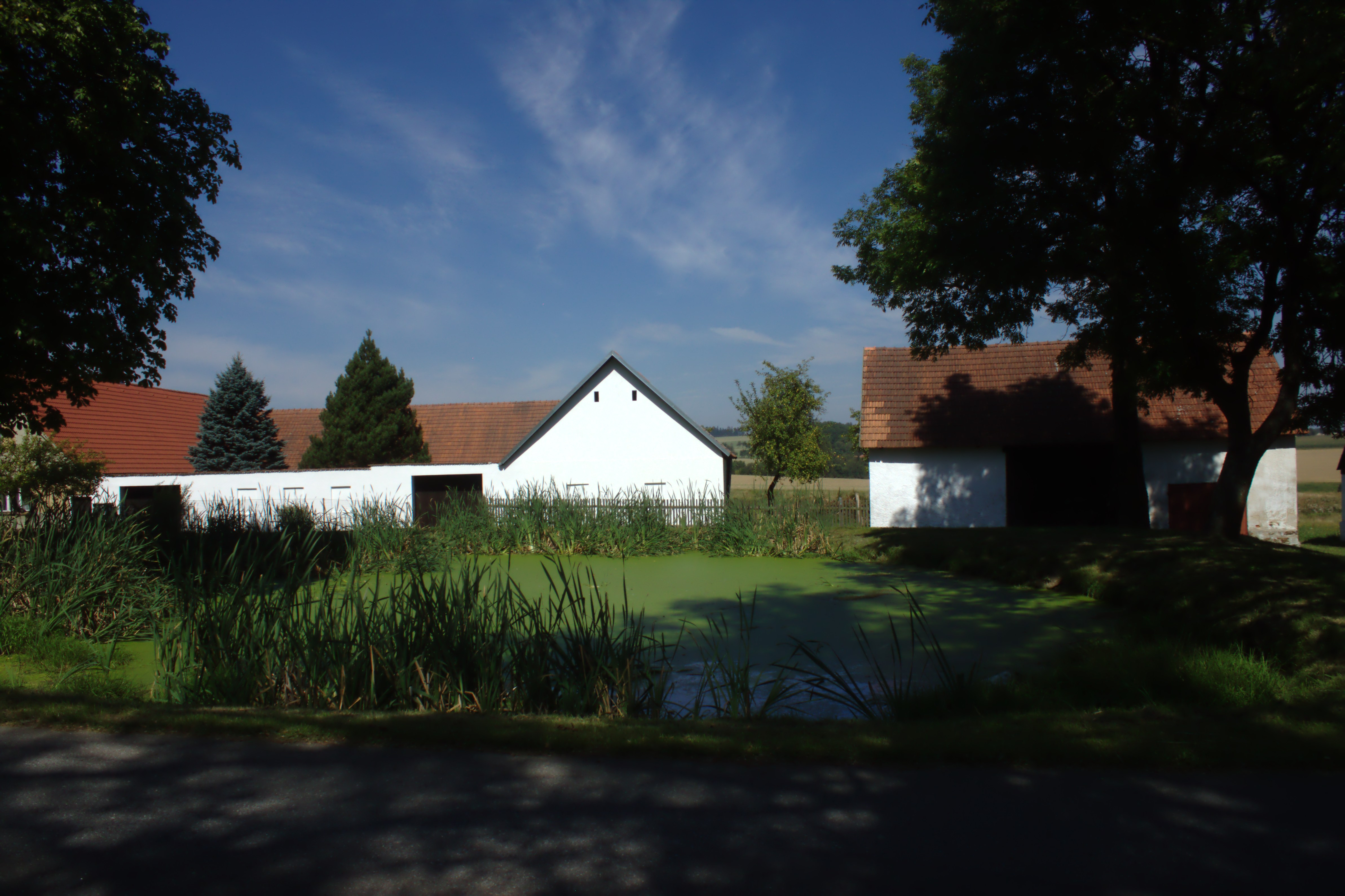 Buildings in the village of Malešín (with a pond in the front), Vysočina Region, CZ